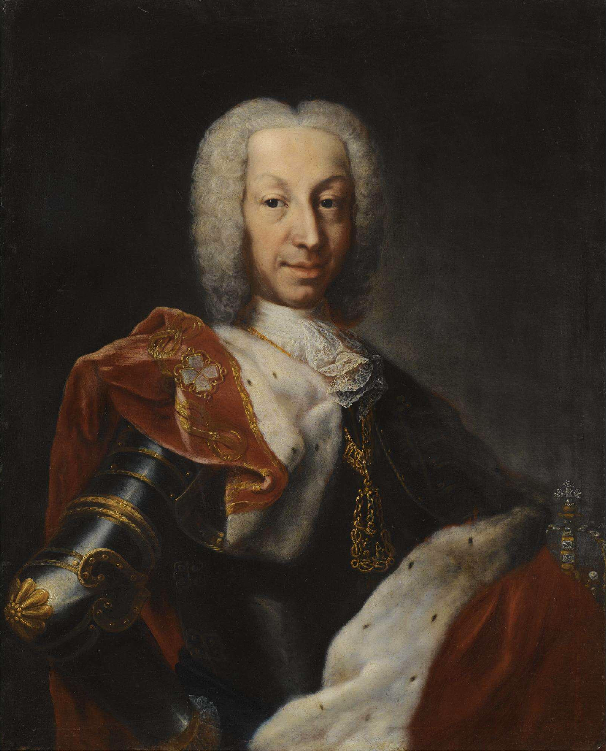 Portrait of Charles Emmanuel III of Sardinia (1701-1773). Portrait of a member of the House of Savoy in armour with a red velvet and ermine cloak wearing the Order of the Annunciata